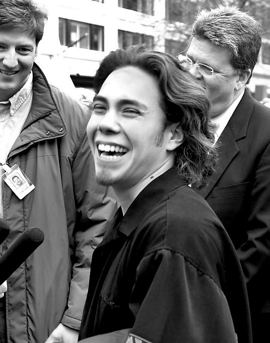 Short-track speed skater Apolo Anton Ohno has won five Olympic medals and, as of February 2010, is competing for more in the Vancouver games. Shown here in Seattle, Washington in 2002. Item 127414, Fleets and Facilities Department Imagebank Collection (Record Series 0207-01), Seattle Municipal Archives.